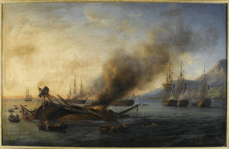 Combat du Grand Port (ile de France) (24 Aout 1810), by Pierre-Julien Gilbert The 1810 Naval Battle of Grand Port Galerie Historique de Versailles?